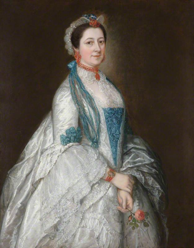 Lady Margaret Downing, Wife of Sir Jacob Downing, 4th Bt